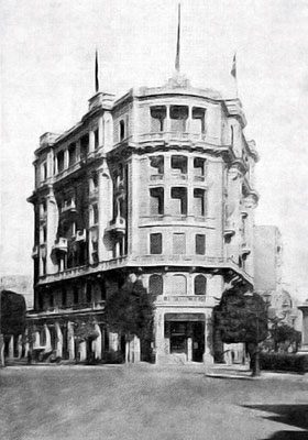 Groppi Cafe in 1924